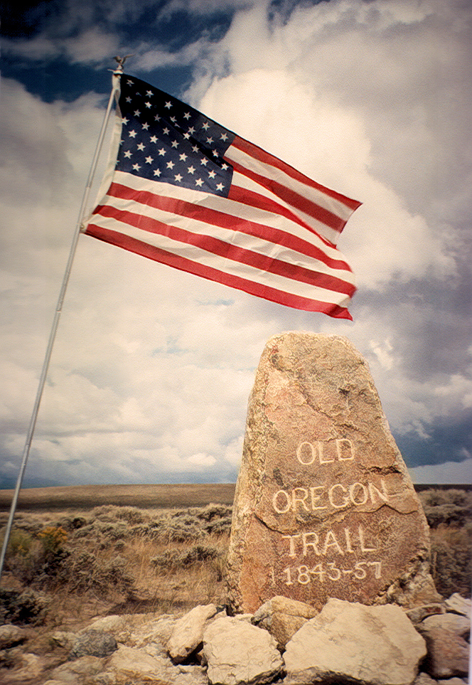 Oregon Trail pioneer Ezra Meeker erected this marker at South Pass, Wyo., (elevation 7,550 ft) as he retraced the trail by covered wagon in 1906. Meeker countered the historical pioneer route in his 1906 reenactment by trekking west to east. A newspaper report in 1915 noted that Meeker claimed he traveled 84 miles out of his way to find the boulder pictured here. If true, that would have been a remarkable detour. Meeker first traveled the Oregon Trail as an emigrant with his wife, Eliza Jane and an infant son in 1852. Meeker sought to spur national interest in the historic trail. He imagined constructing a commemorative transcontinental highway alongside the route of the old trail, according to a 1907 Ohio State Journal article. Photo by: Randy C. Bunney, circa 1993. Red Desert, Wyoming References Washington State Historical Society Ohio State Journal, 1907. Evening Post (Seattle), 1915 reprinted "Story of the Lost Trail to Oregon. Ye Galleon Press, 1984.